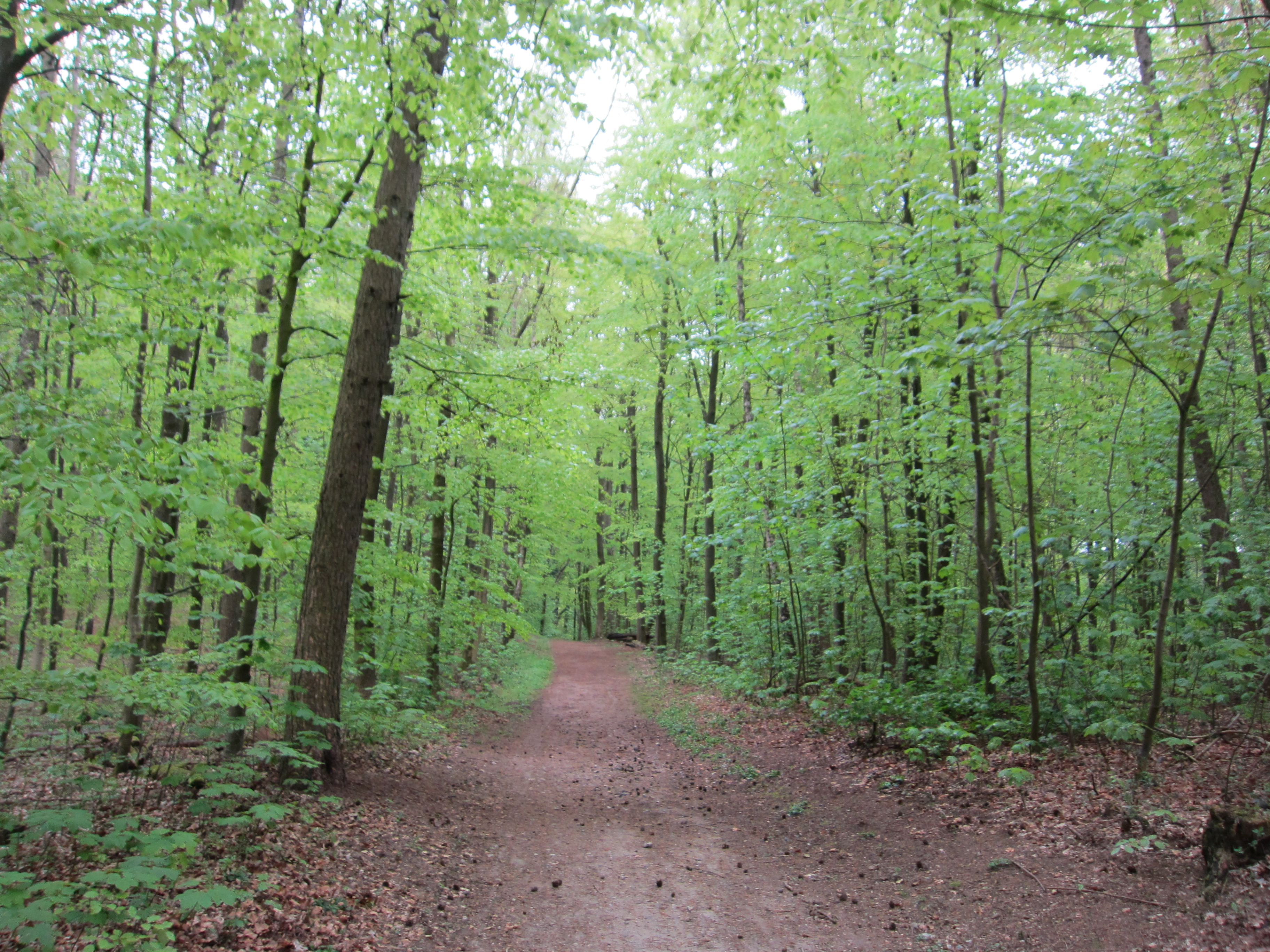 Forest "Vieburger Gehölz" in Kiel-Gaarden-Süd